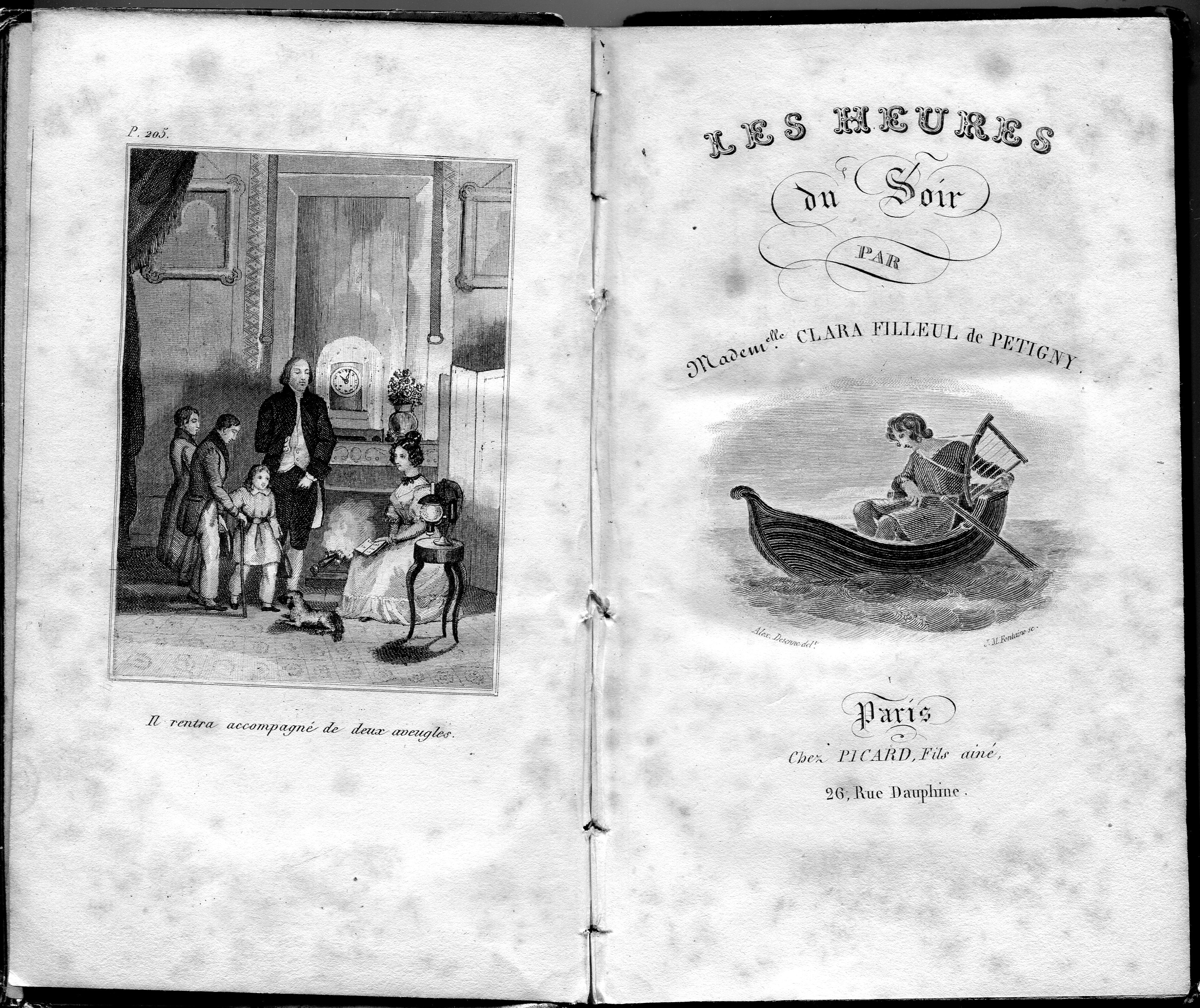 Les Heures du Soir par madamelle Clara Filleul de Pétigny, titre et frontispice.